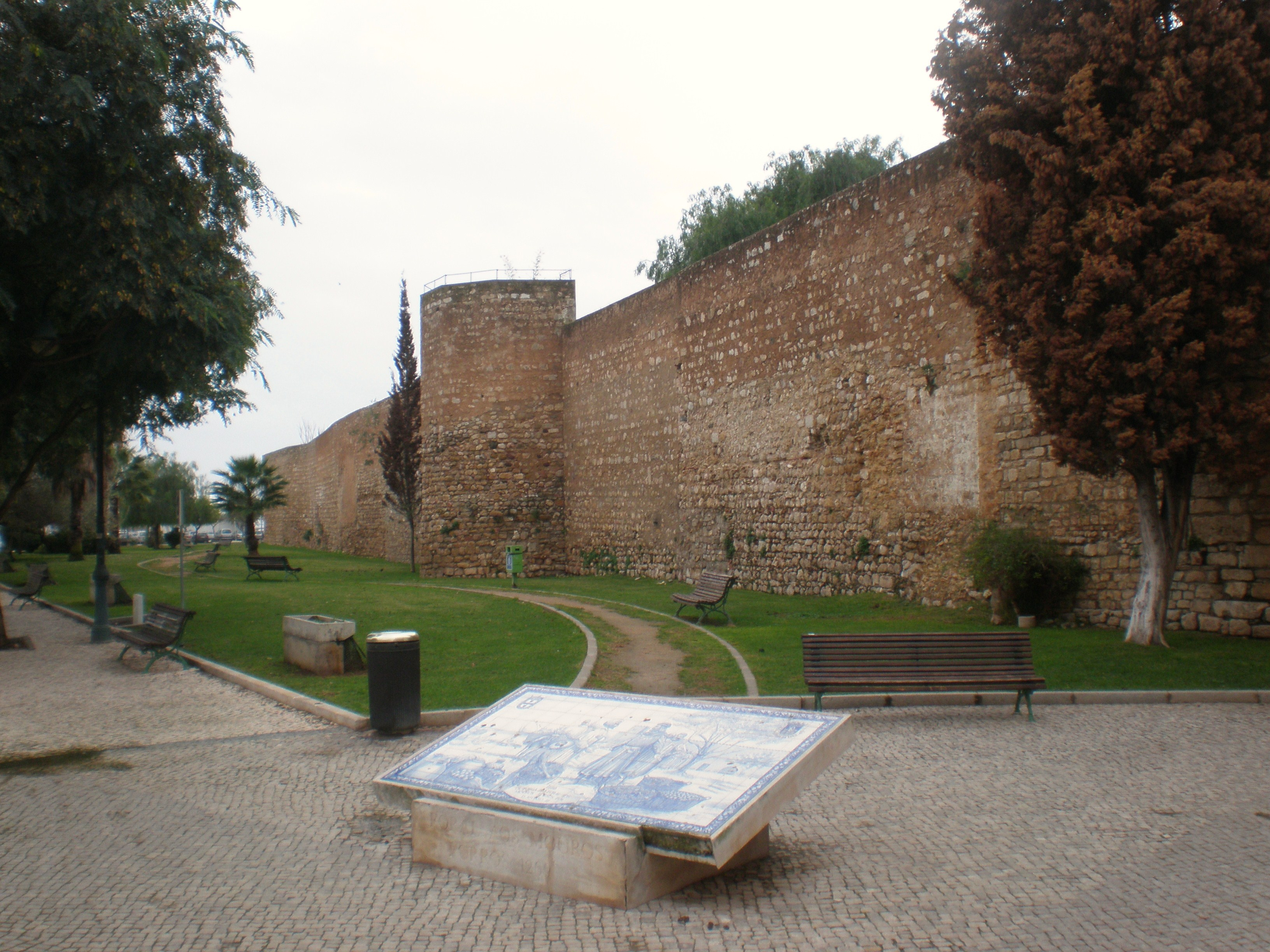 Walls of Faro, Portugal